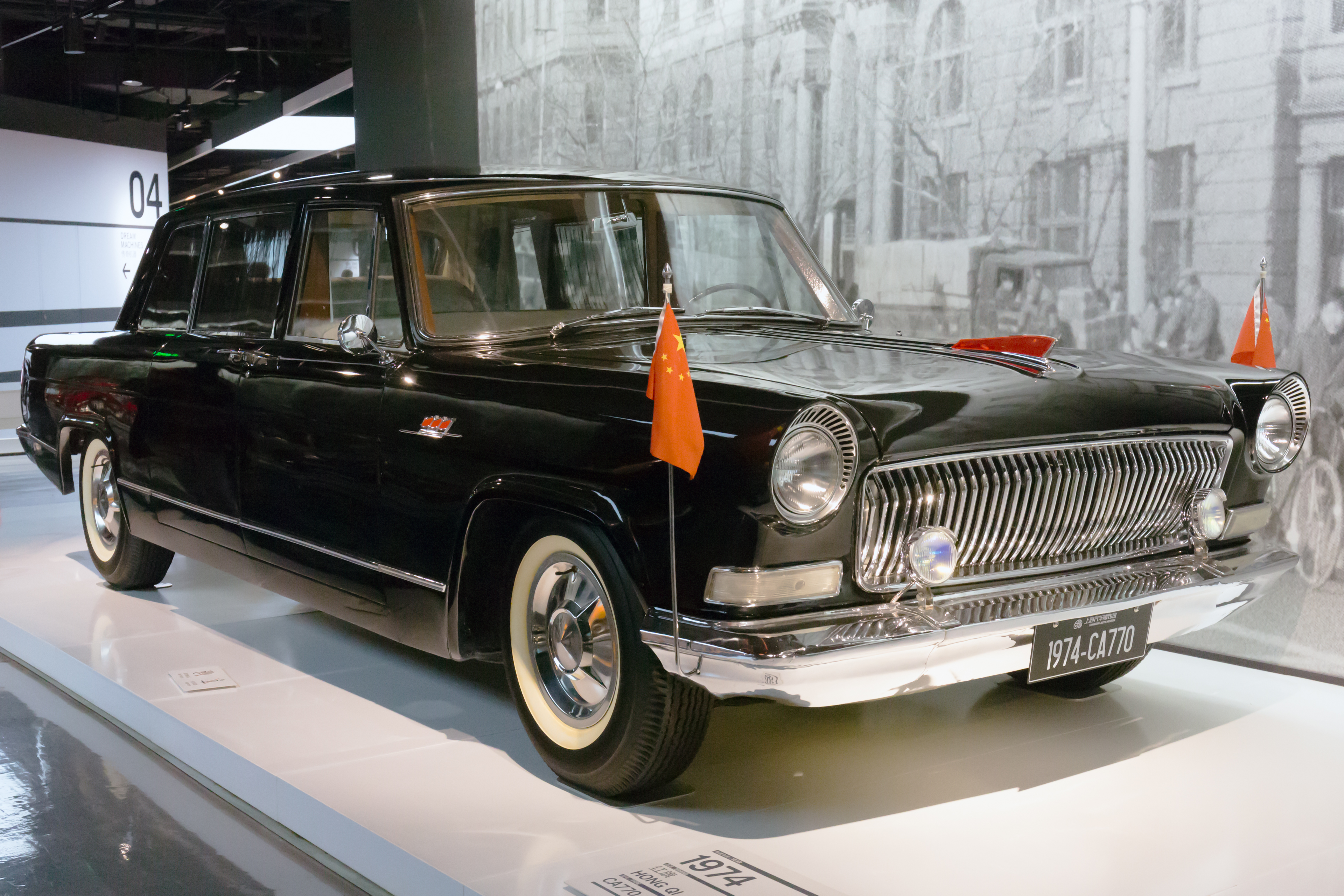 1974 Hongqi CA770